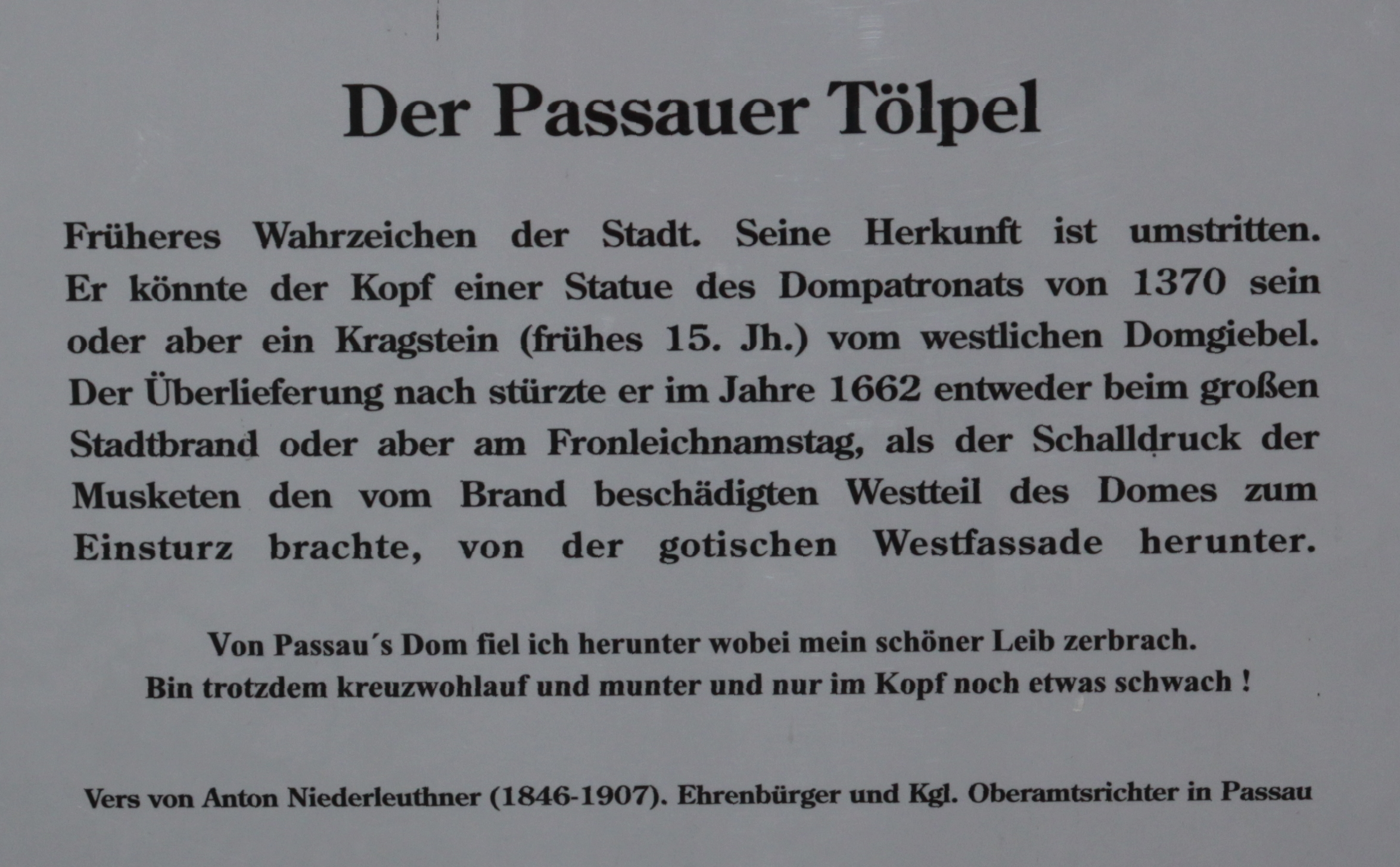 sign at the “Passauer Tölpel”, Passau